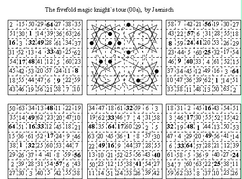 Magic_Knight_Tours__Jaenisch_1859_1862